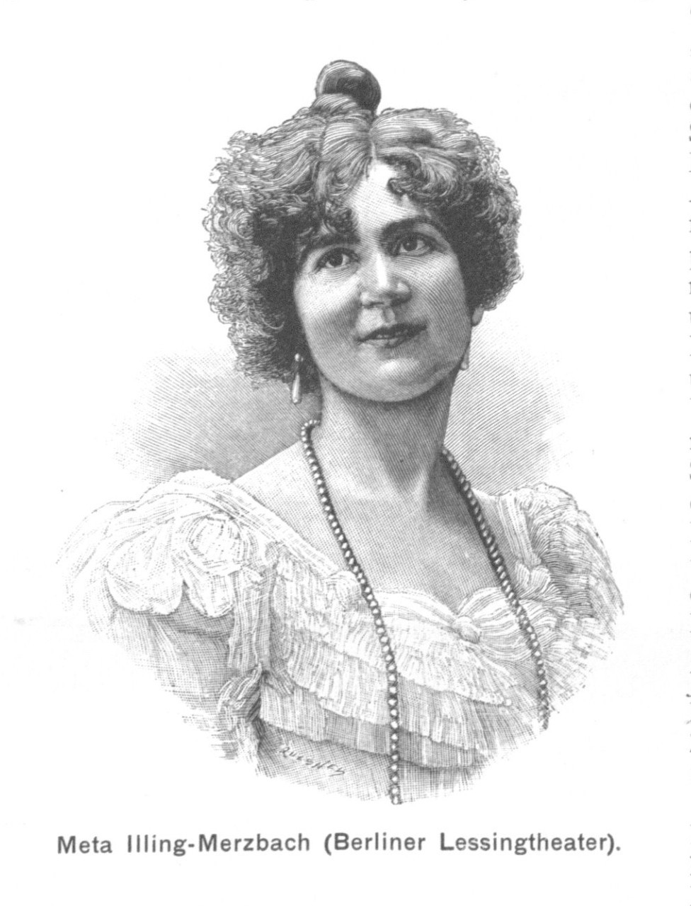 Portrait of Meta Illing-Merzbach (1872-1909), German actress.